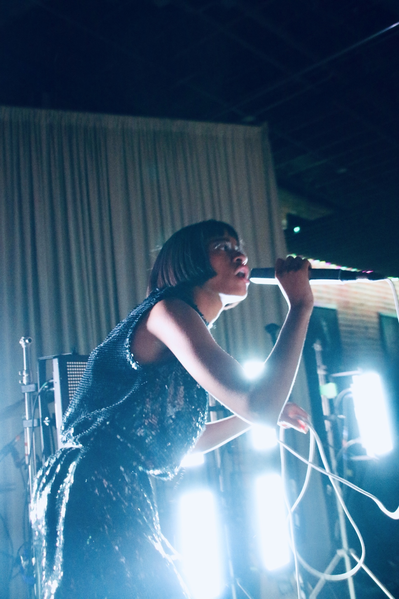 Kilo Kish ::: Summit Music Hall ::: 03.19.10